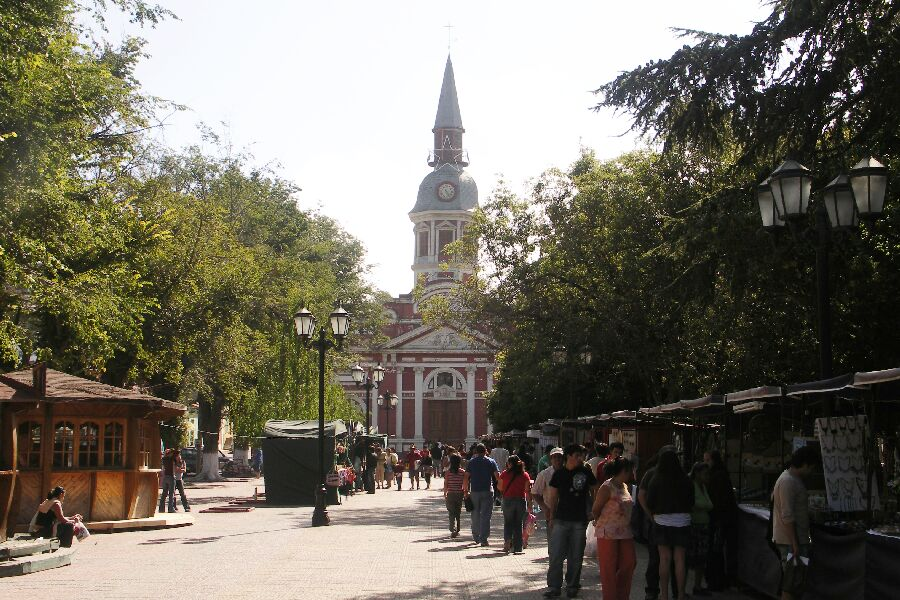 church in Constitucion, Chile